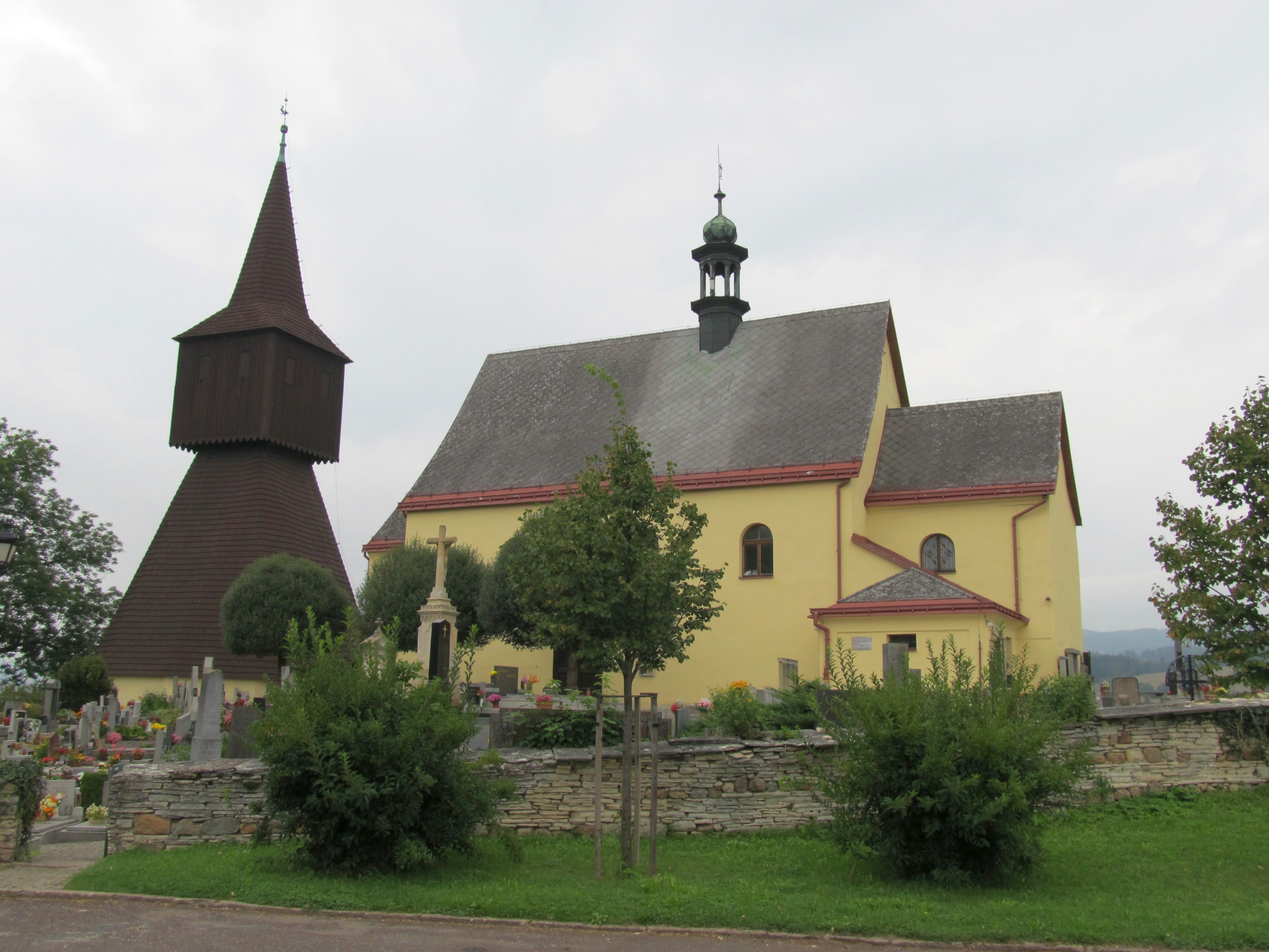 Rtyně v Podkrkonoší, Trutnov District, Czech Republic.